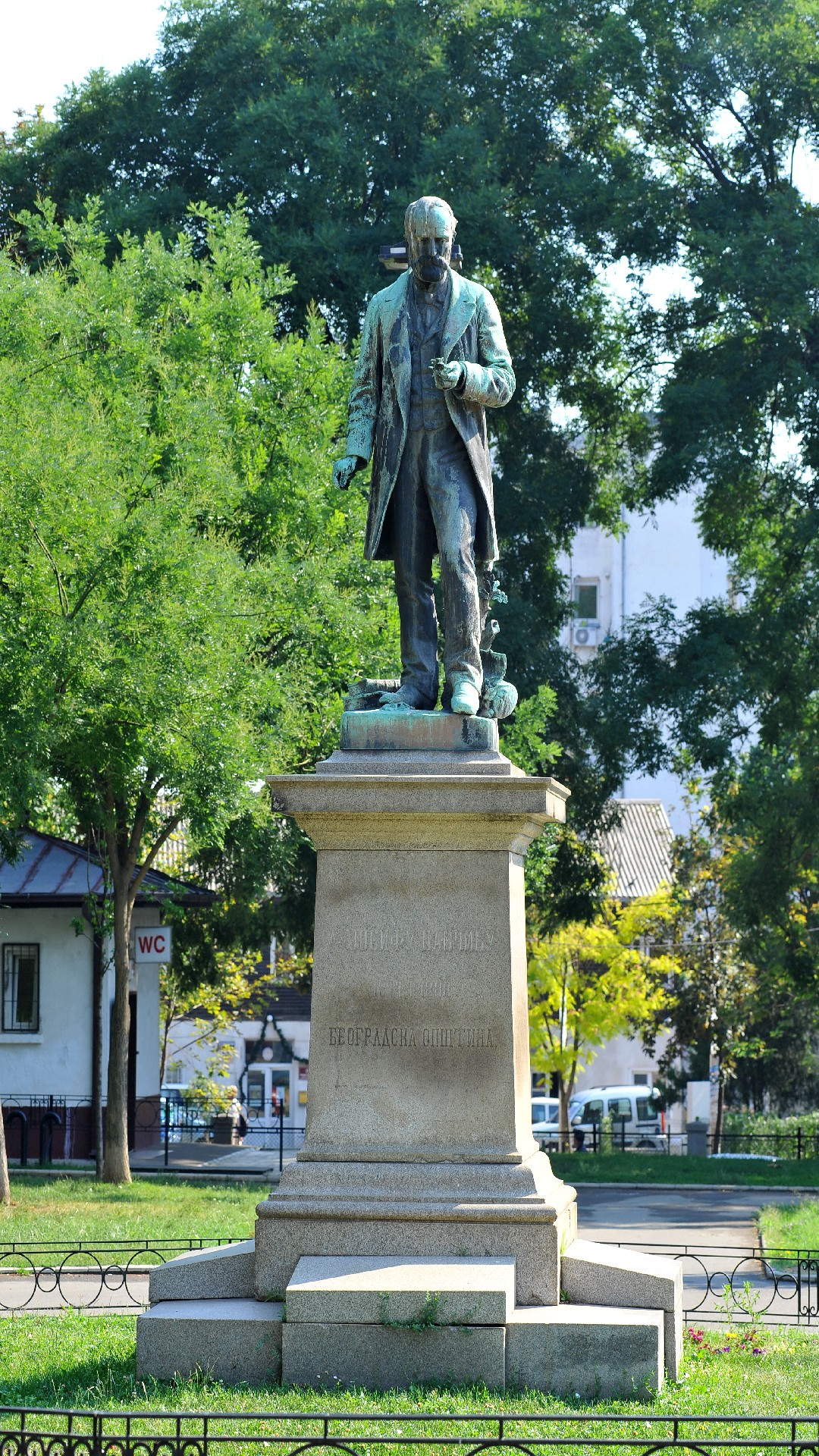 Monument of Josif Pančić in the University Park, Belgrade